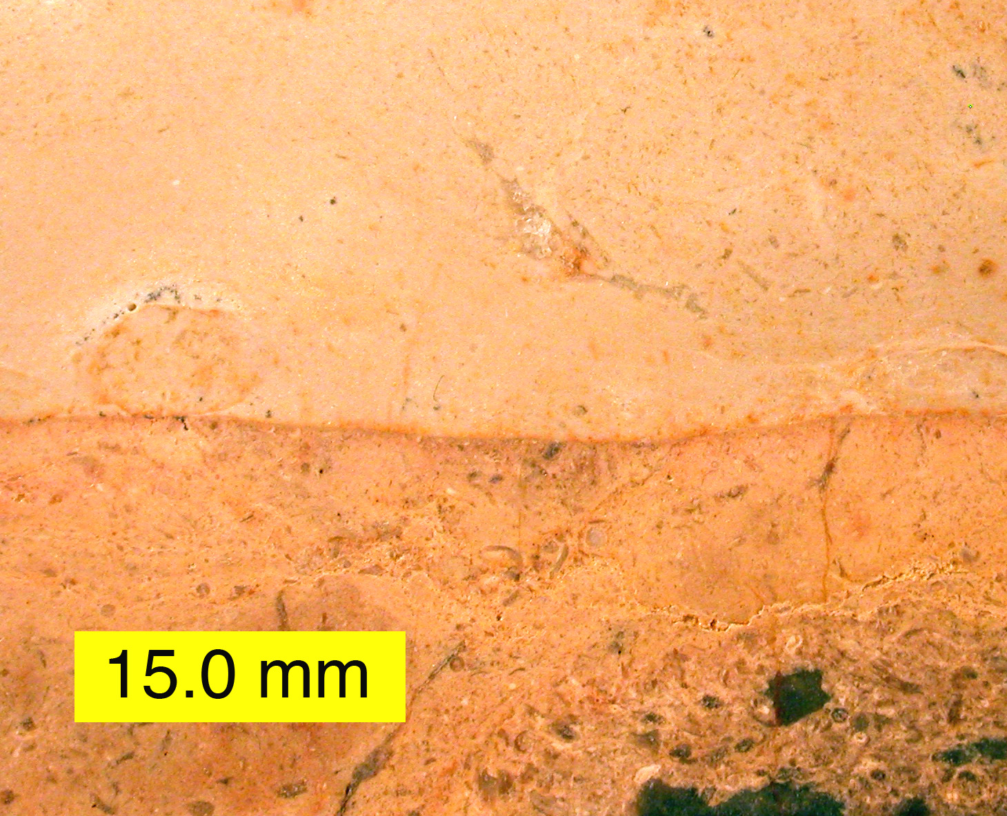 Disconformity in which the Edwards Formation (Lower Cretaceous) lies upon a Lower Permian limestone in Texas. The hiatus is approximately 165 million years.